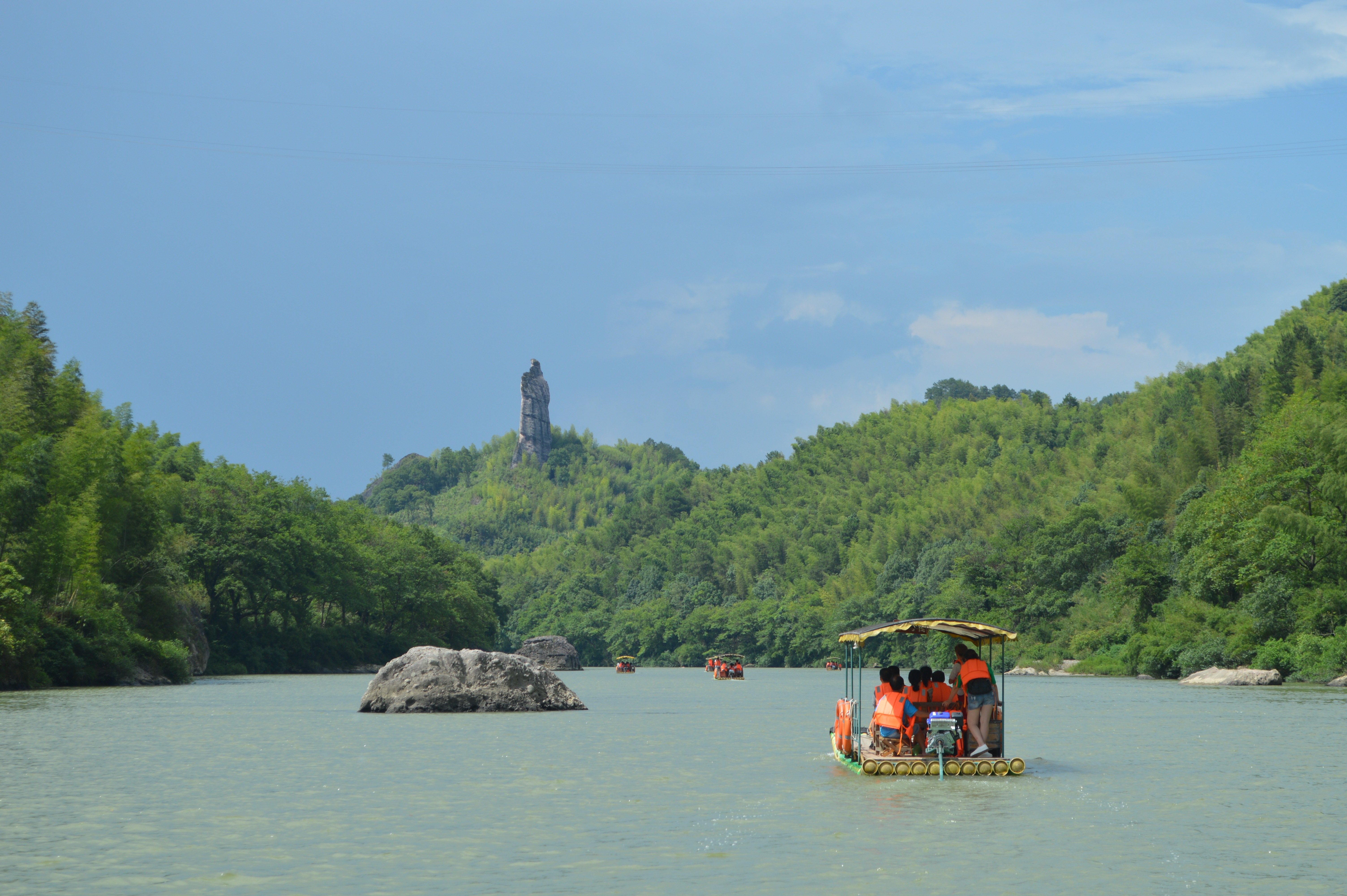 Picture of Fuyi River in Mount Langshan National Geological Park, Hunan, China. Fuyi River is a tributary of Zi River. Langshan is a mountain in Xinning County, Hunan, China. It was made a UNESCO World Heritage Site on August 2, 2010.